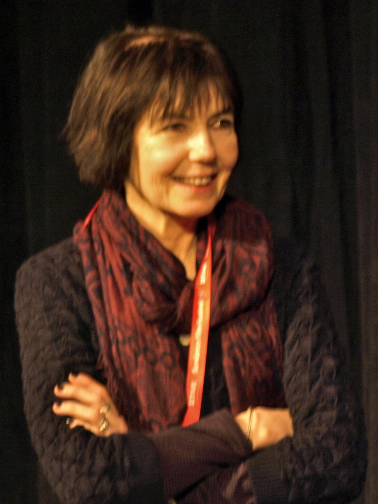 Kim Longinotto and Oliver Huddleston